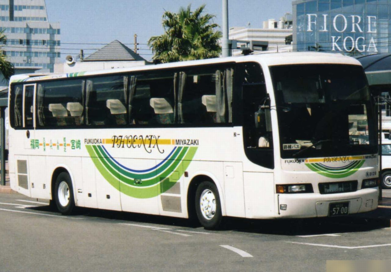 Nishitetsu 3129 "Phoenix" Mitsubishi KC-MS829P 2004.03.09 Miyazaki Sta. Photo by Cassiopeia_sweet.